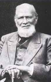 Koni Anatolii Fedorovish. 1926.